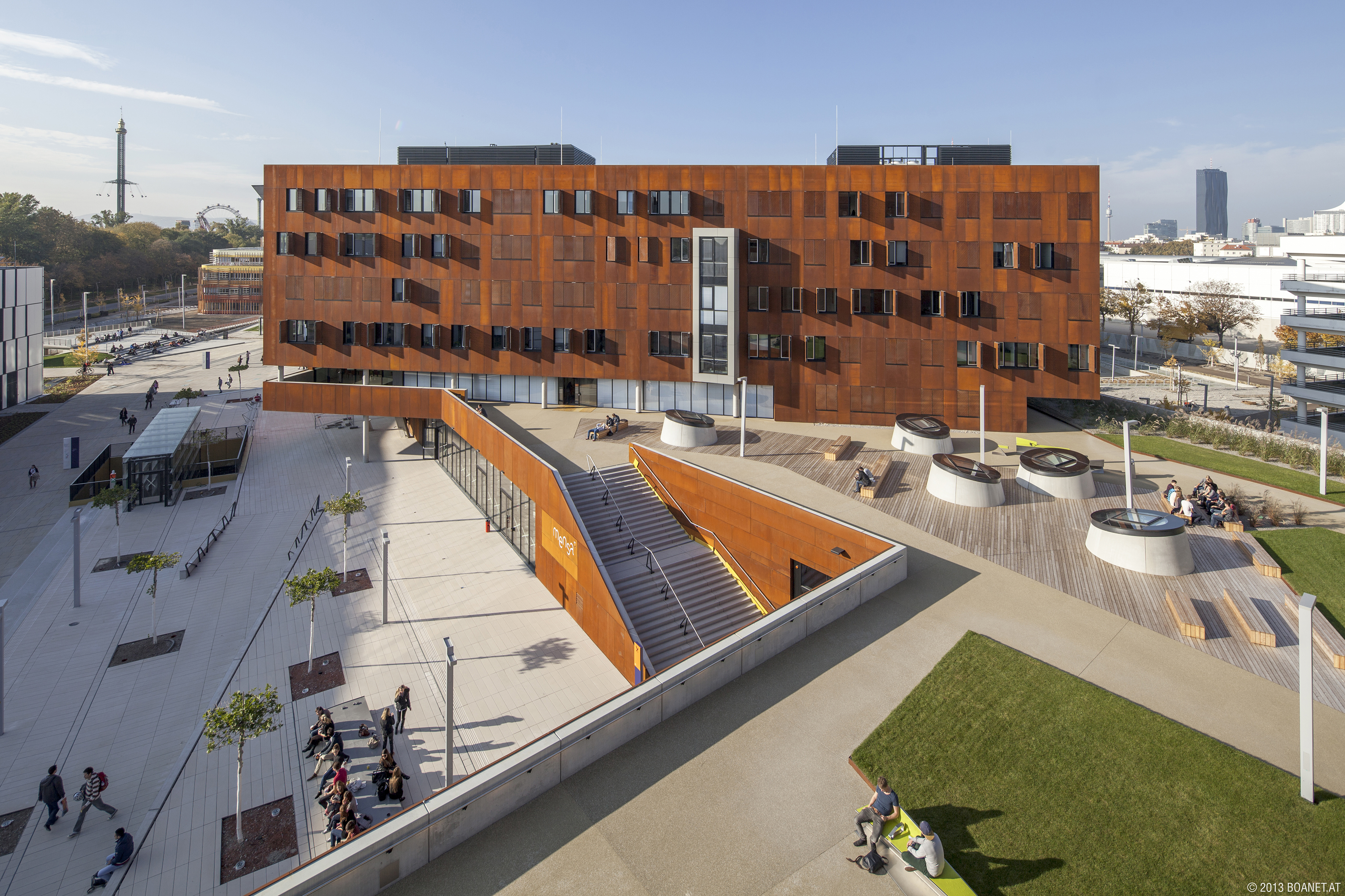 BOAnet D1TC Landscape Sorround BUSarchitektur Campus WU